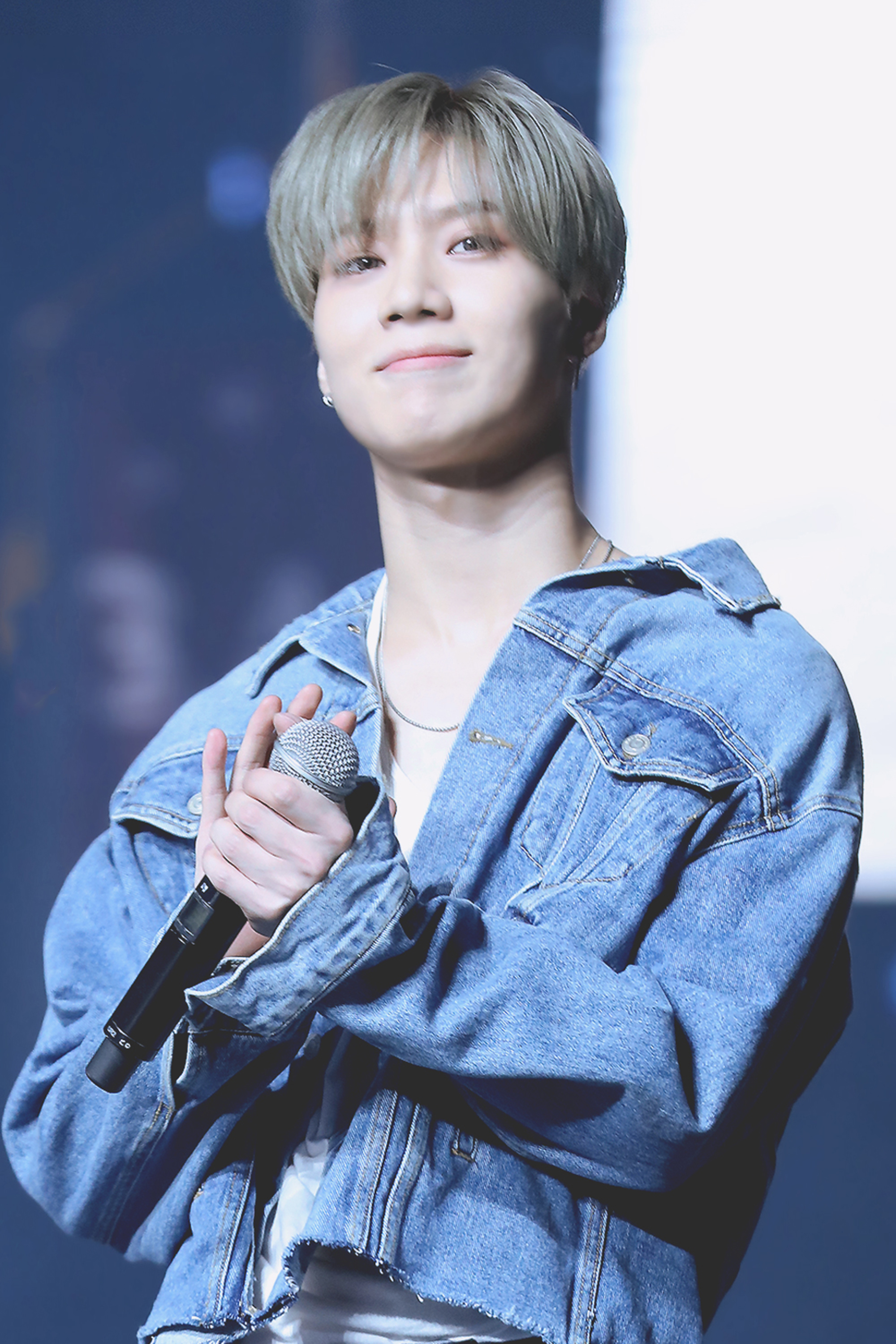 Taemin performing at Music Bank in Chile on March 23, 2018.